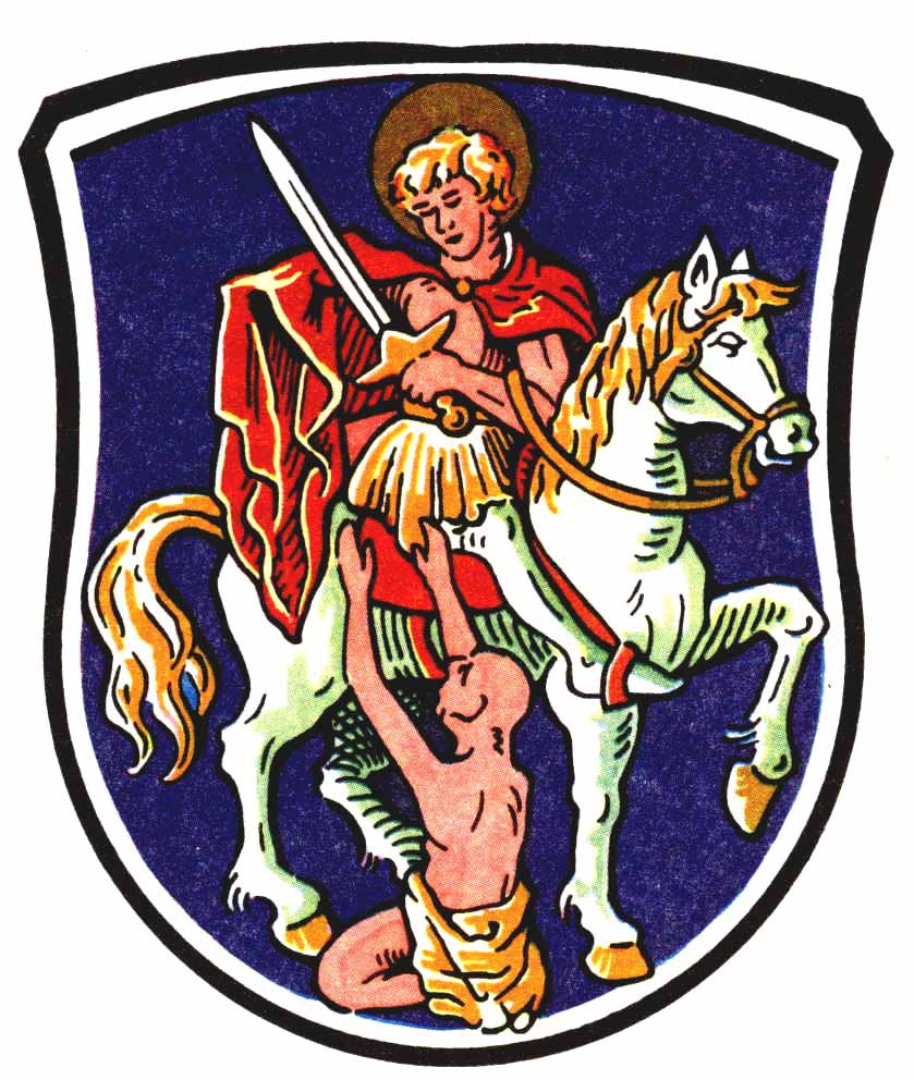 This is the coat of Arms of Dieburg. It shows Martin of Tours.